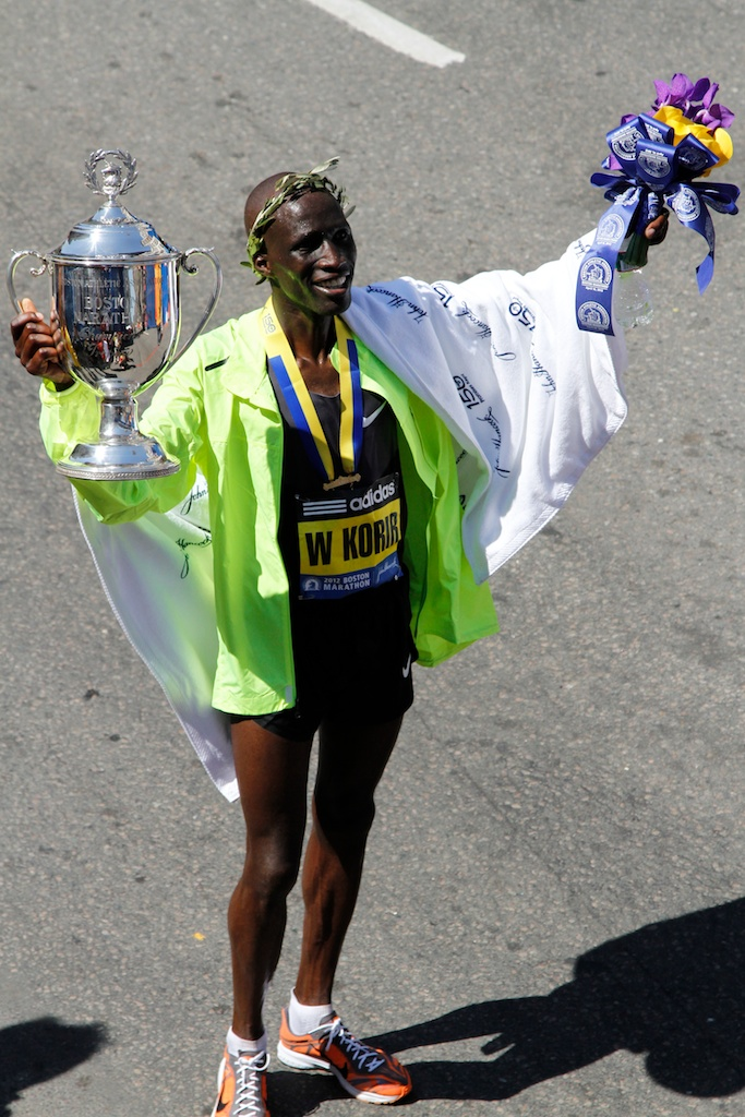 Apr.16, 2012 - Wesley Korir of Kenya wins the men's division of the 2012 Boston Marathon in a time of 2:12:40. He rises his trophy and flower. (Hyunah Jang / Boston University News Service)